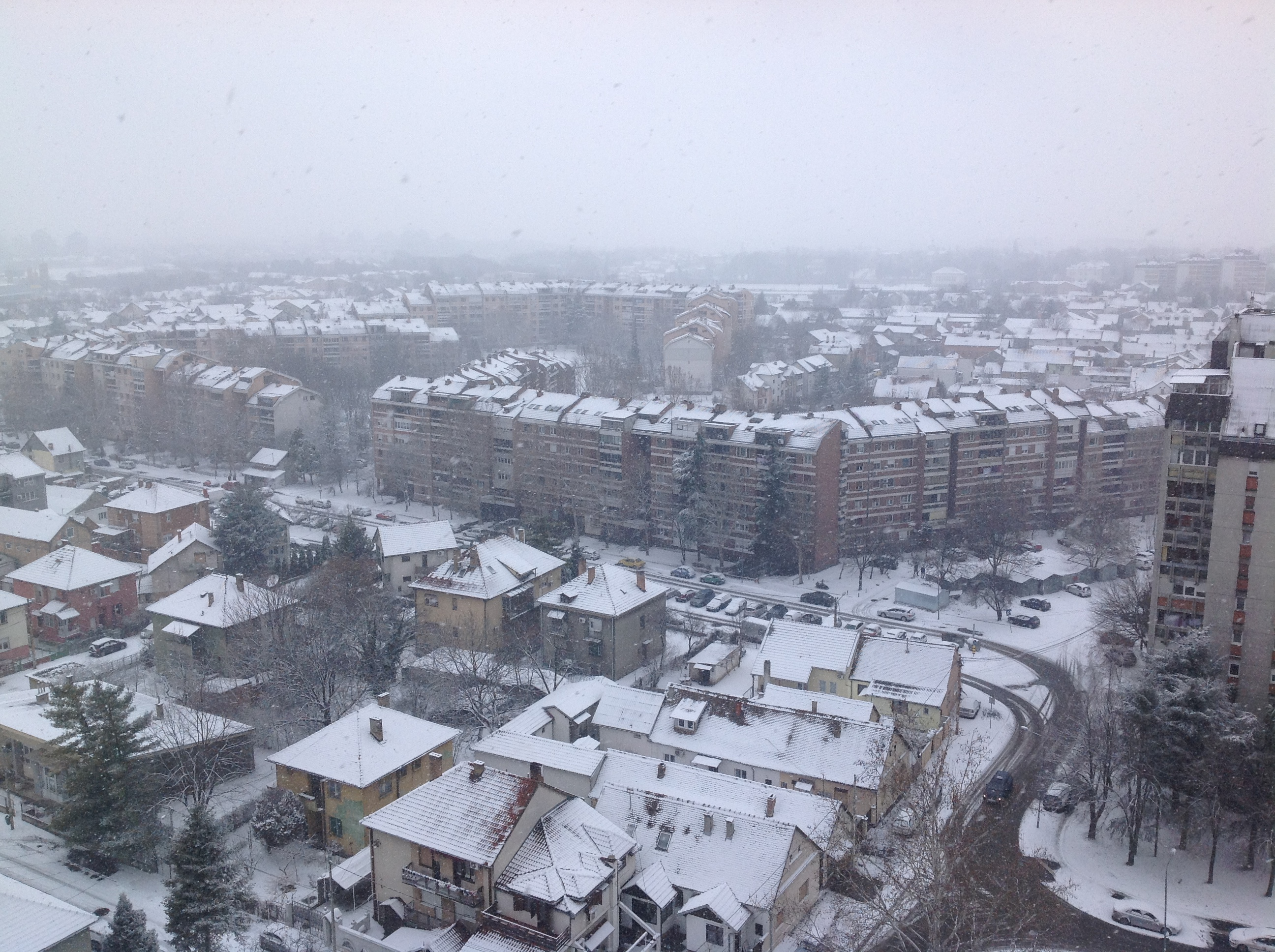 Zemun, Serbia